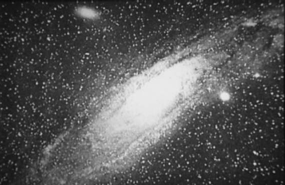 Great Andromeda Nebula. Public domain photo of from A Selection of Photographs of Stars, Star-clusters and Nebulae, Volume II, The Universal Press, London, 1899. Author (Isaac Roberts) died on 17 July 1904